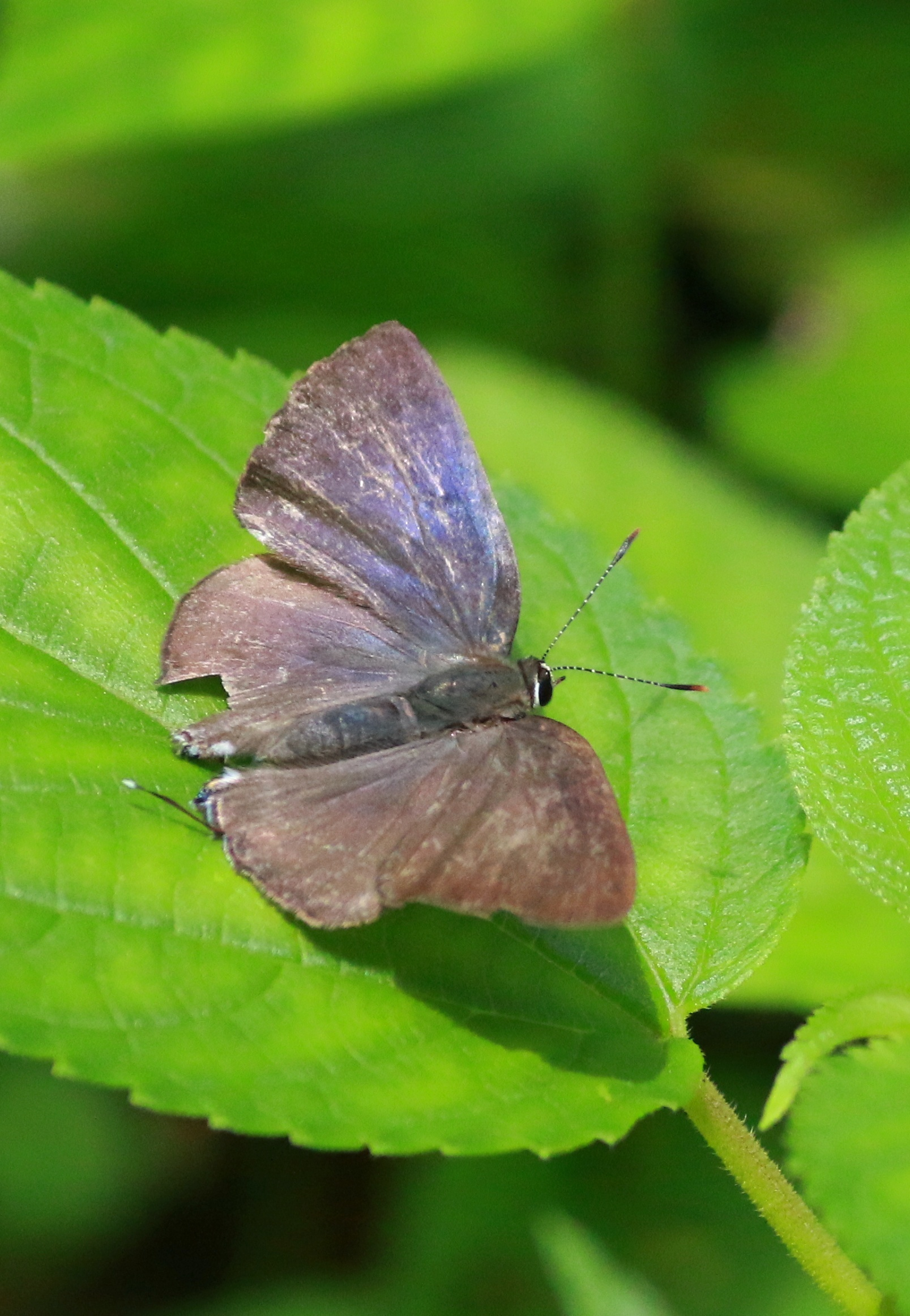 slate flash